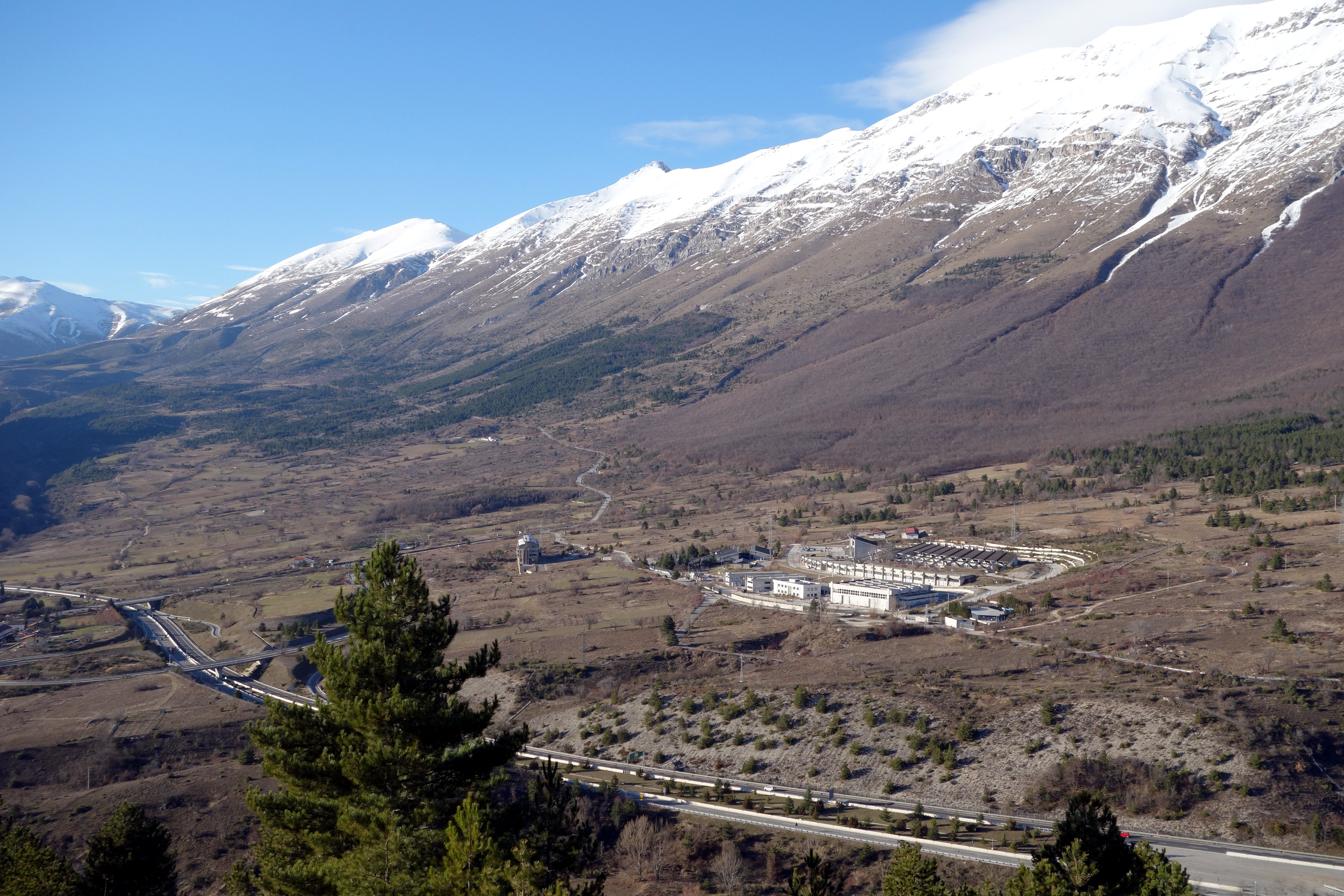 Administrative buildings of INFN LNGS and highway A24 near Assergi, Italy